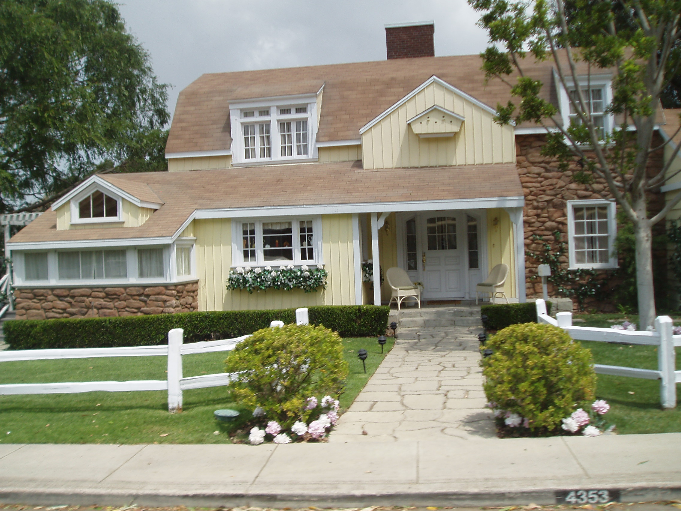 Photo representing the "Johnson home", featured in the TV series The Hardy Boys/Nancy Drew Mysteries, The New Lassie and in the movie Deep Impact. In Desperate Housewives, the house is located on 4353 Wisteria Lane and occupied by Susan Mayer (Teri Hatcher) and her family since the beginning of the show. When she was forced to leave her house during season 7, it was rented by Paul Young (Mark Moses) and his wife Beth (Emily Bergl).